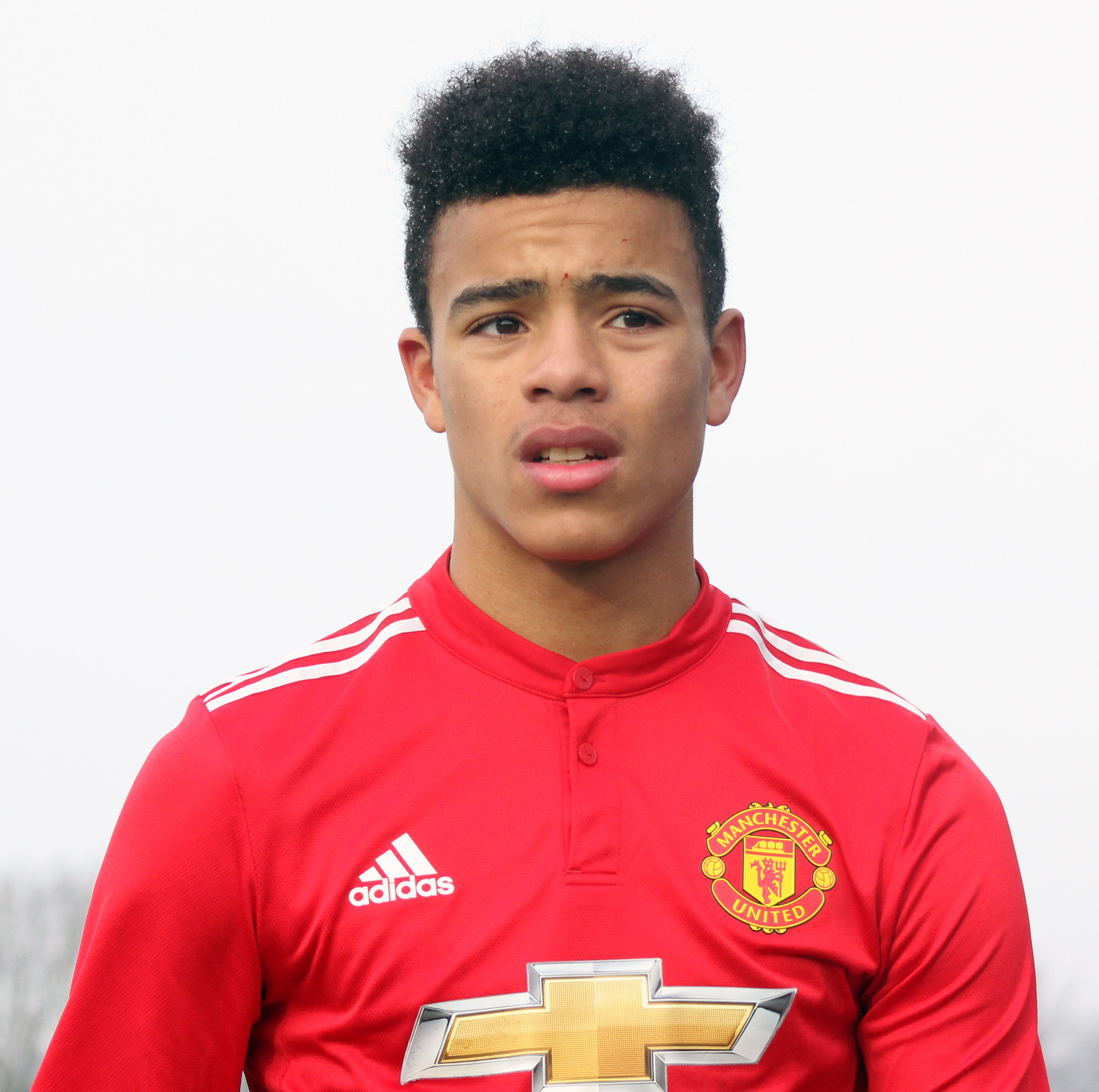 Mason Greenwood of Manchester United after the U18 Premier League match against Liverpool at The Cliff, Salford, England on Saturday 9 December 2017.